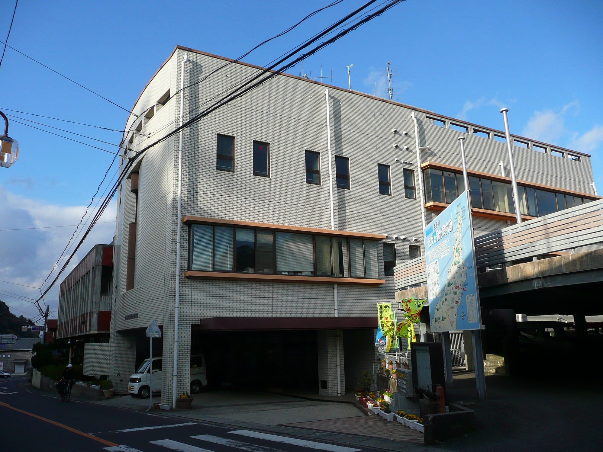 Minamiosumi Town Office Sata Branch (Former Sata Town Office - Kagoshima Prefecture, Japan)